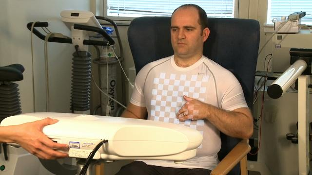 Male Patient Seated SLP